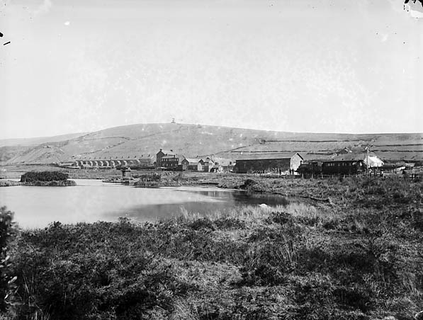 1 negative : glass, dry plate, b&w ; 16.5 x 21.5 cm.